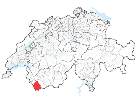 Location Val d'Entremont